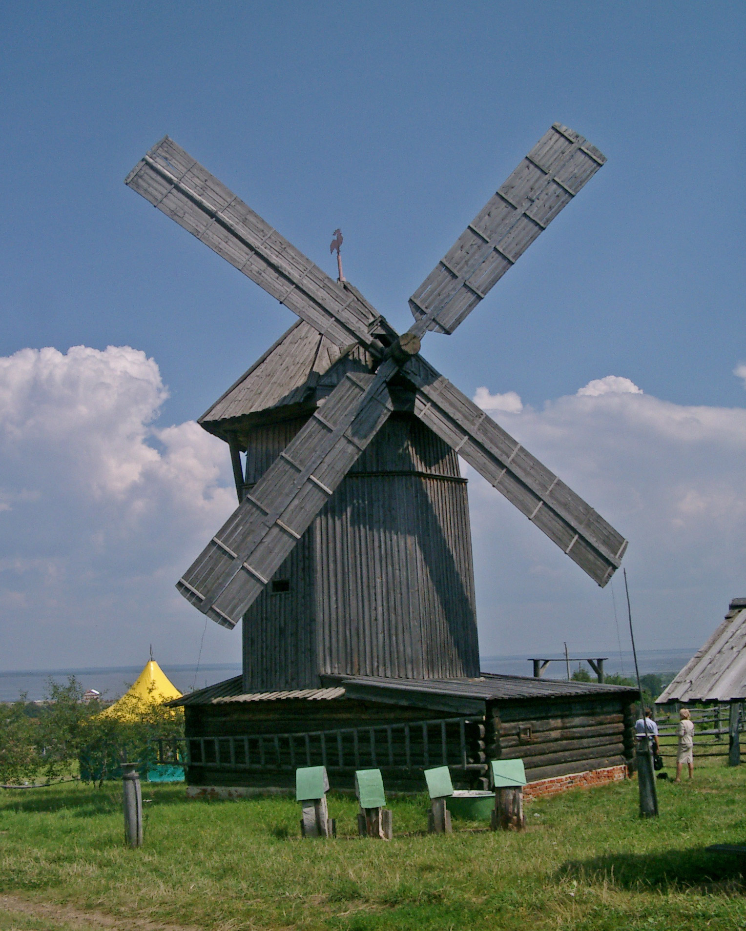 Windmill in Mari Ethnographic Museum, Koz'modem'yansk, Republic of Mariy El, Russia